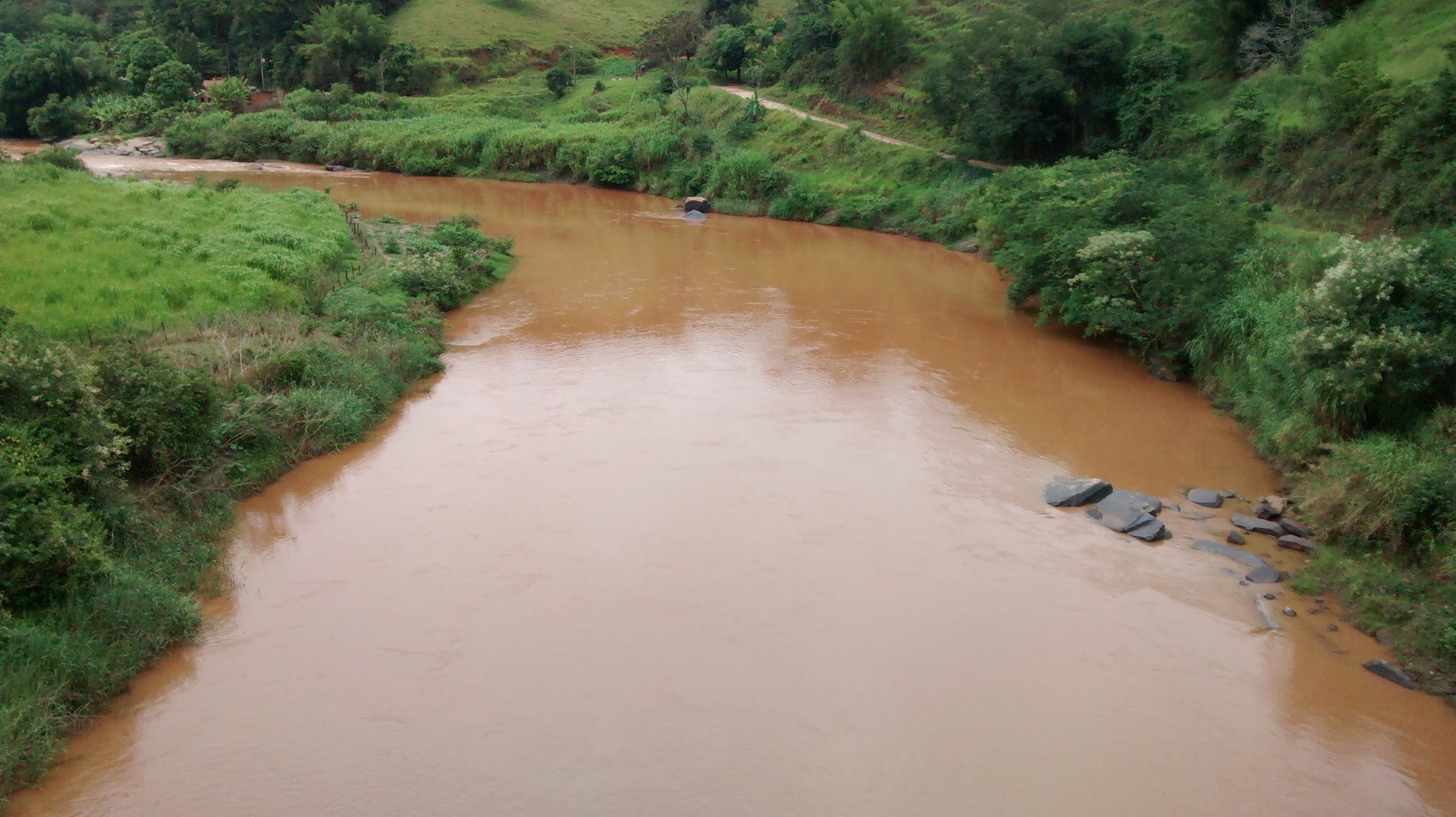 Nova Era - State of Minas Gerais, Brazil